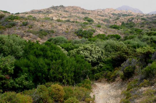 Maquis growing along a small stream. Agriates, Corsica